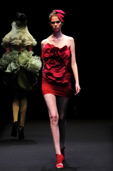 Two models on the runway in Oka Diputra clothes at a fashion show in Tokyo, Japan.